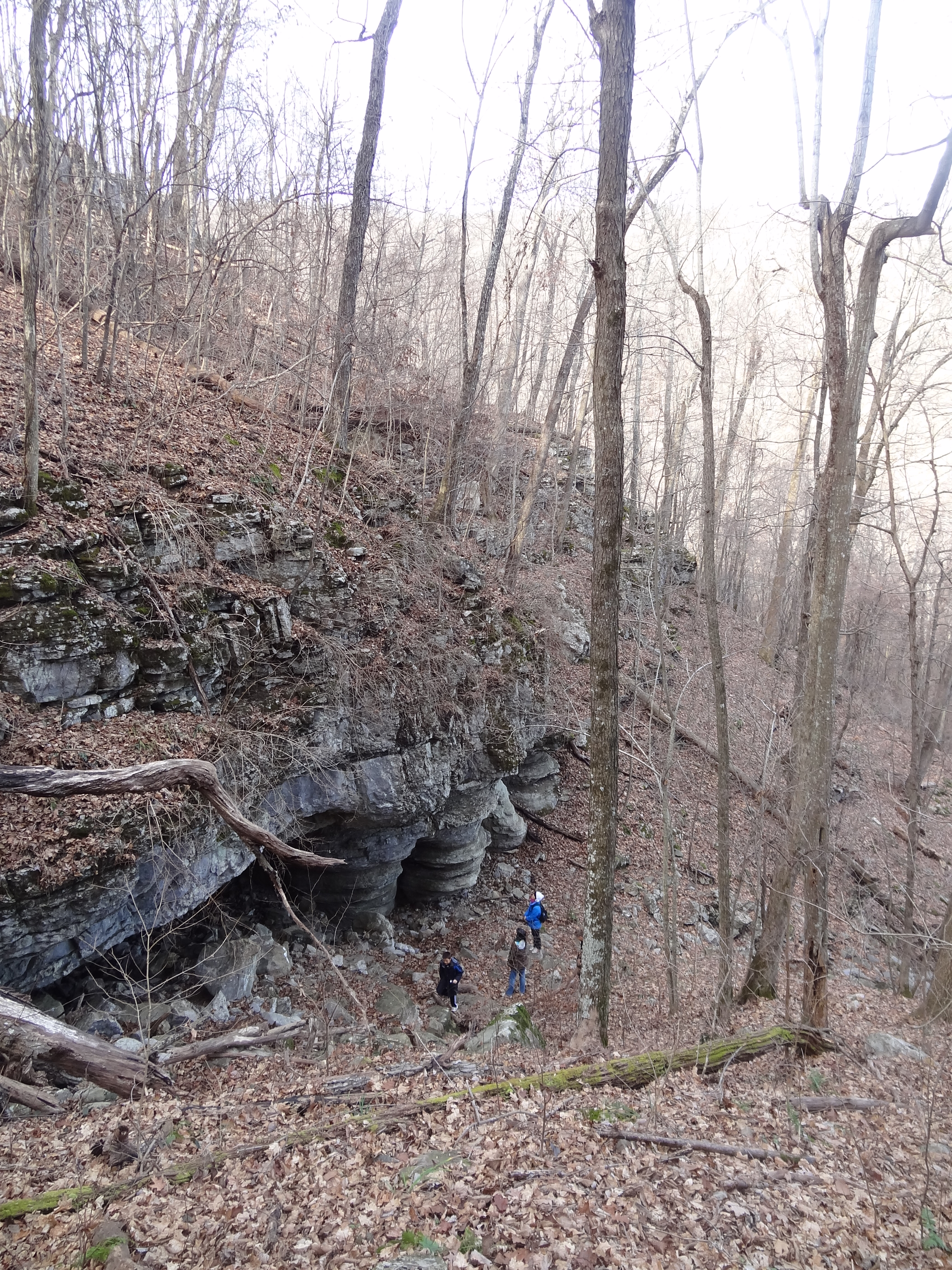 Thumping Dick Hollow, Sewanee, Tennessee, USA: Cave 1 Entrance Exterior